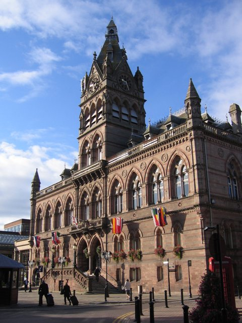 Photograph